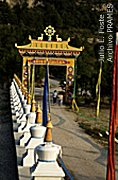 Vajrayana Buddhist Center Dag Shang Kagyu, is a spiritual refuge located in the small town of Panillo, 10 kilometers of Graus, which has become a sort of Tibet Huesca.